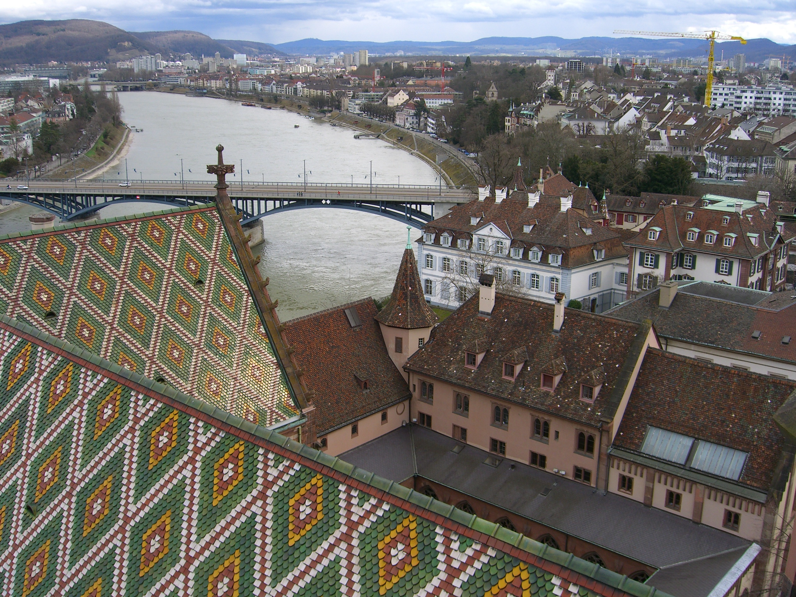 View of the Rhine from the Minster of Basel